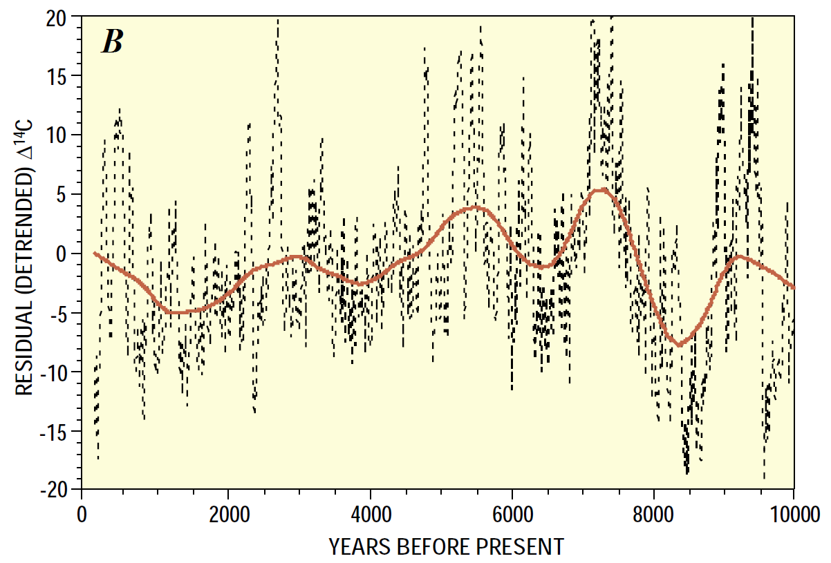 Records of radiocarbon production, A, as measured in bi-decadal samples of wood (Δ14C) in which the age of the sample is known from counting tree rings (Damon and Sonnett, 1991) for the period from 10,000 calendar years ago to the present. B, Residual (detrended; dashed lines) record of Δ14C in which the long-term secular variation trend has been removed. The heavy red curve is a weighted smoothing function showing Hallstadtzeit Cycles with periodicities of about 2,000 years.